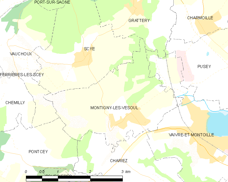 Map of French municipality